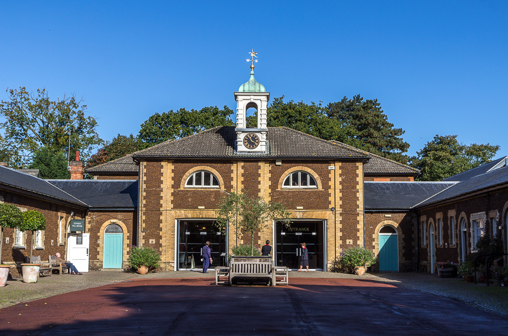 Motor Museum, Sandringham House Park, Norfolk